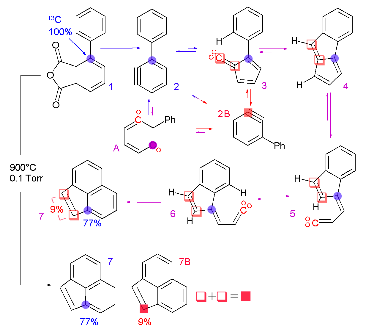 Benzyne Conversion: The use of a carbon-13 labled precursor was used to determine the mechanism of the proposed 1,2- to 1,3-didehydrobenzene conversion of the phenyl substituted aryne precursor 1 to acenaphthylene. blue = unscrambled position red = scrambled position purple = considering both positions together/cross-over product. Compound A represents the intermediate meta-benzyene which interconverts the two ortho-benzyenes (2 and 2B)